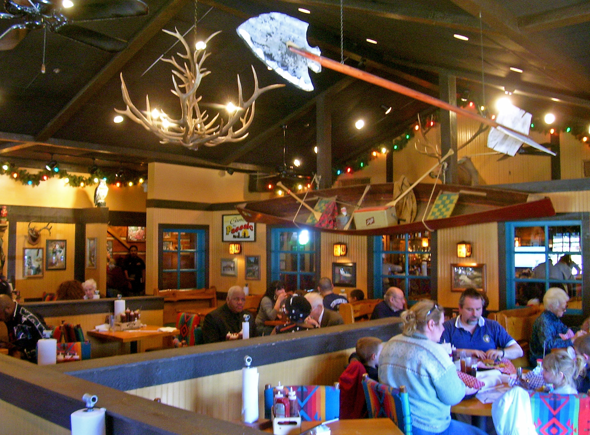 Main dining room at a Famous Dave's in Mountainside, NJ, USA